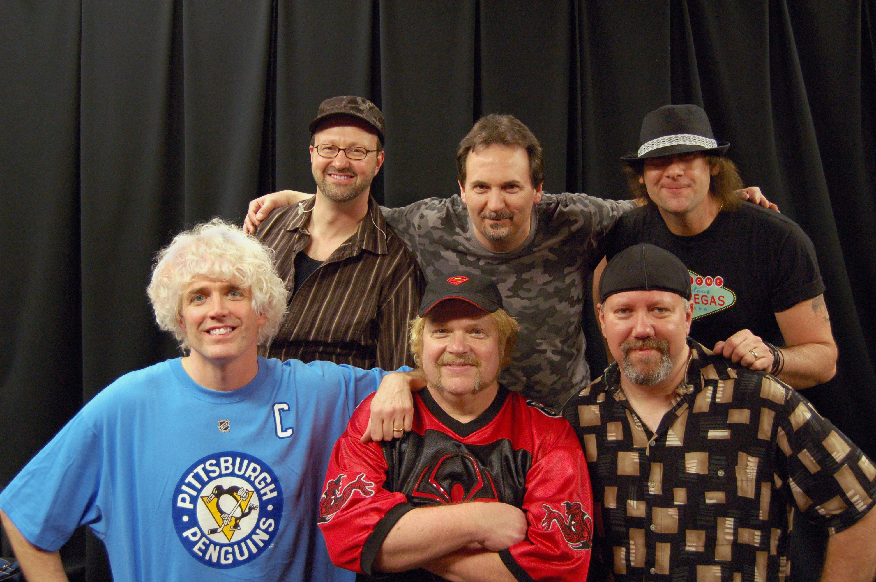 ApologetiX Members - (Back L to R) Tom Milnes, Tom Tincha, Jimmy Tanner, (Front) J. Jackson, Keith Haynie, Bill Hubauer